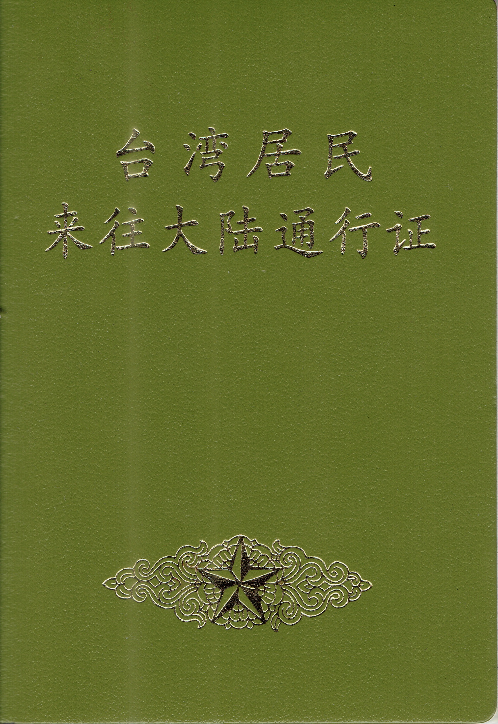 the Cover of Mainland Travel Permit for Taiwan Residents (old version).